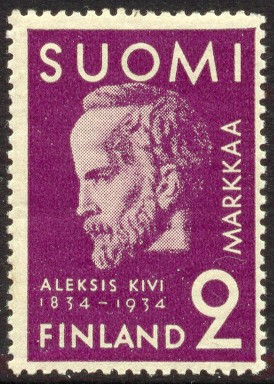 Postage stamp depicting the Finnish writer Aleksis Kivi